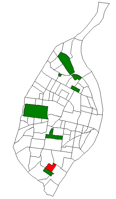 Map of St. Louis Neighborhood #03